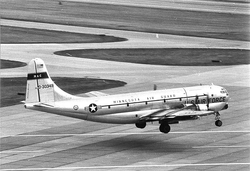 109th Military Airlift Squadron Boeing C-97G Stratofreighter 53-348. Was retired to MASDC Dec 2, 1965. Returned to service. Finally retired to MASDC as CH0602 Sep 27, 1977